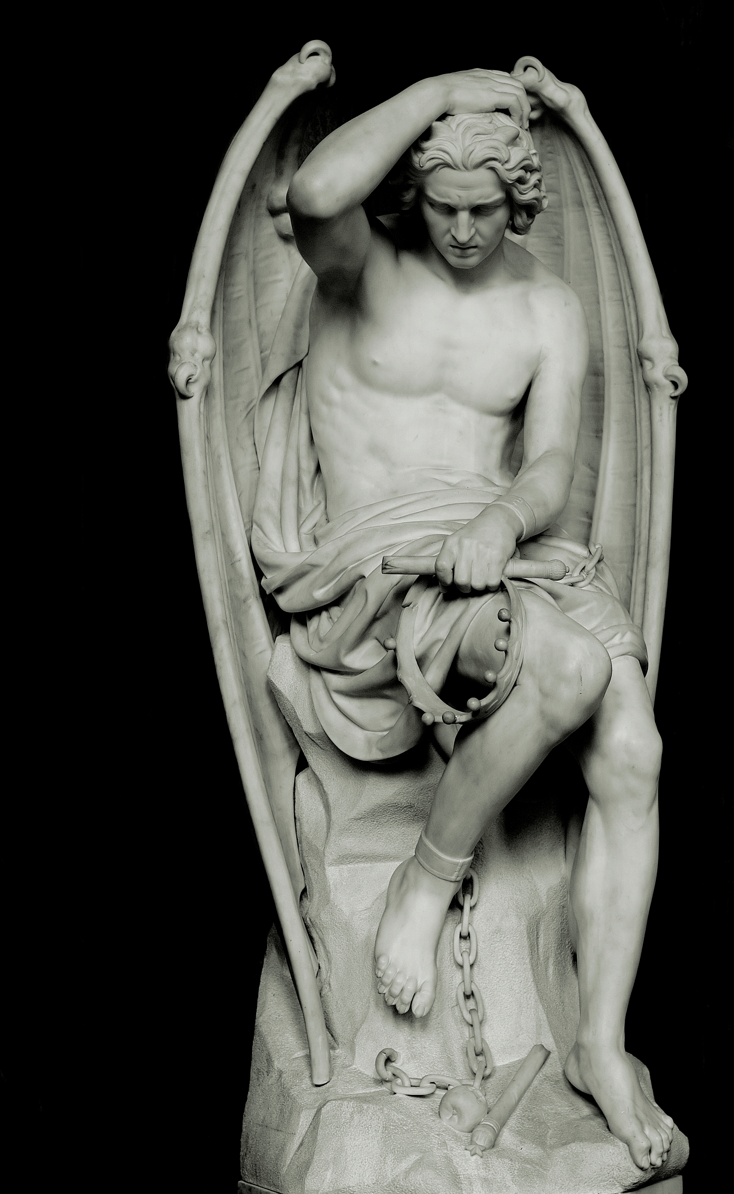 Le génie du mal (The Genius of Evil), known informally in English as Lucifer or The Lucifer of Liège, artist Guillaume Geefs (Belgium)